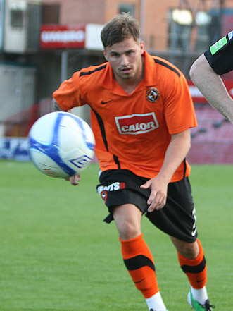 Bohemians V Dundee United (19 of 34)